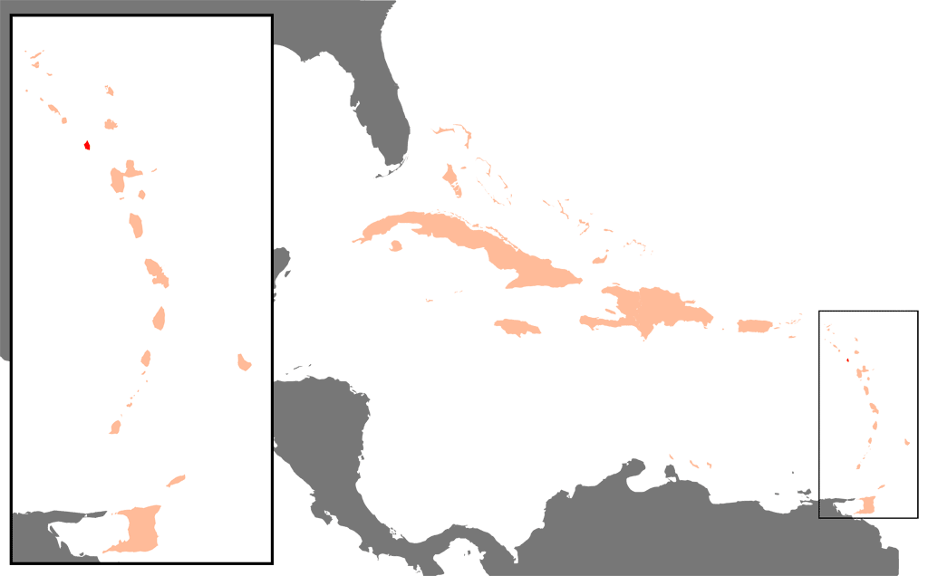 Position of Montserrat in the Caribbean